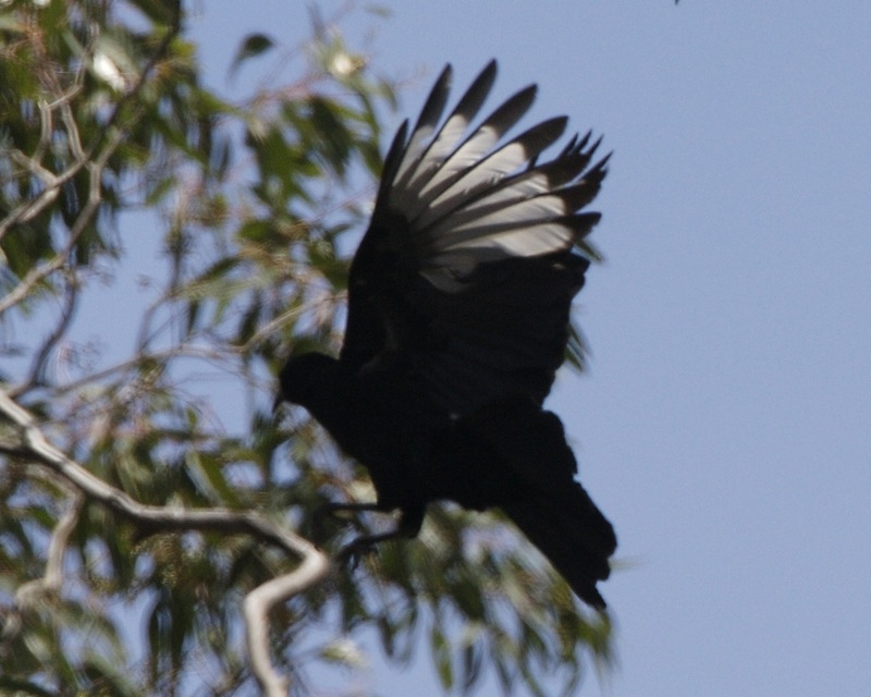 A White-winged Chough with wings open at Brisbane Ranges National Park, Victoria, Australia.